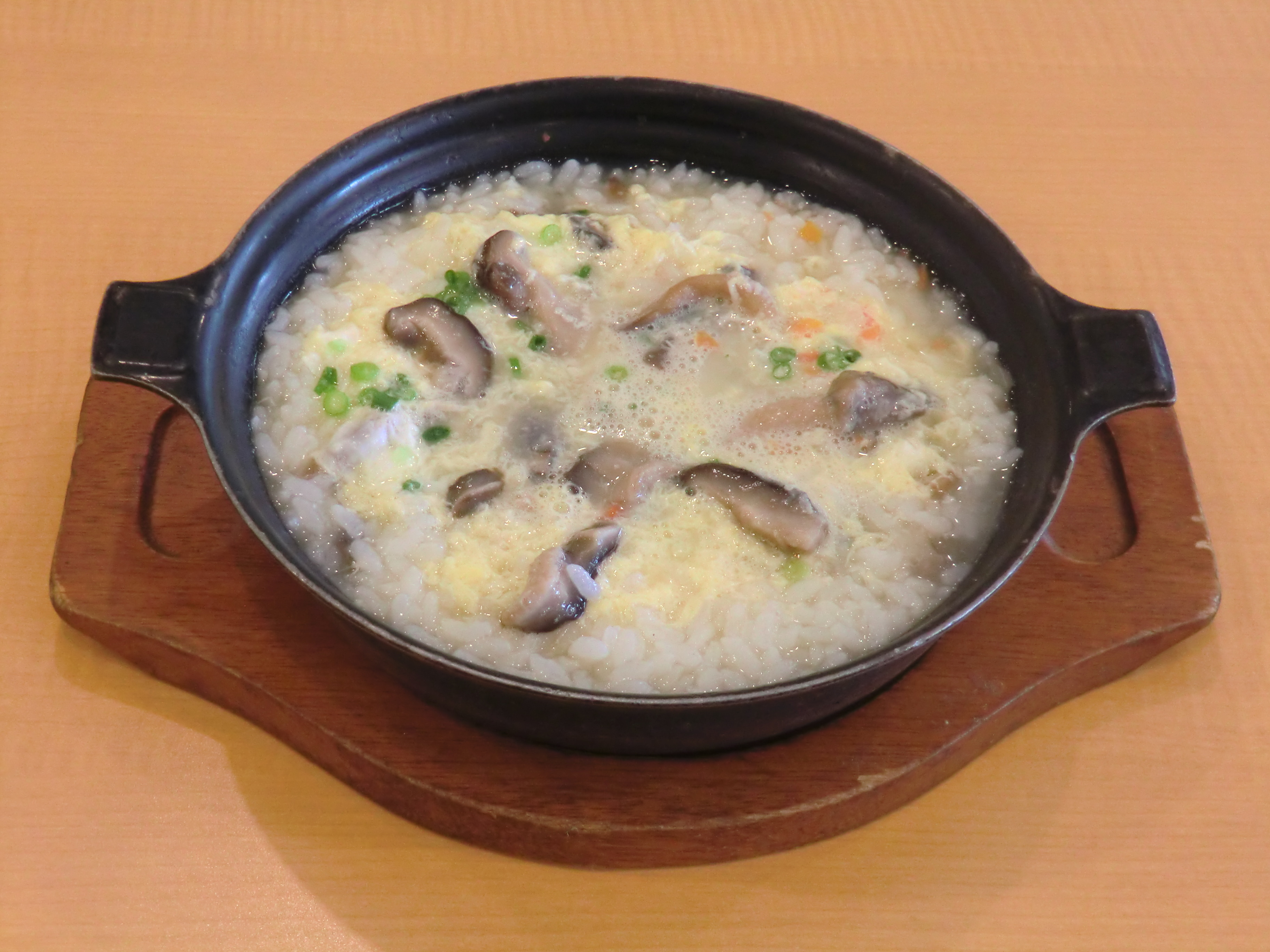 Kinoko Zosui (きのこ雑炊), at Restaurant Gusto